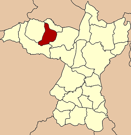 Map of Khon Kaen Province, Thailand, highlighting the sub-district Wiang Kao (กิ่งอำเภอเวียงเก่า)